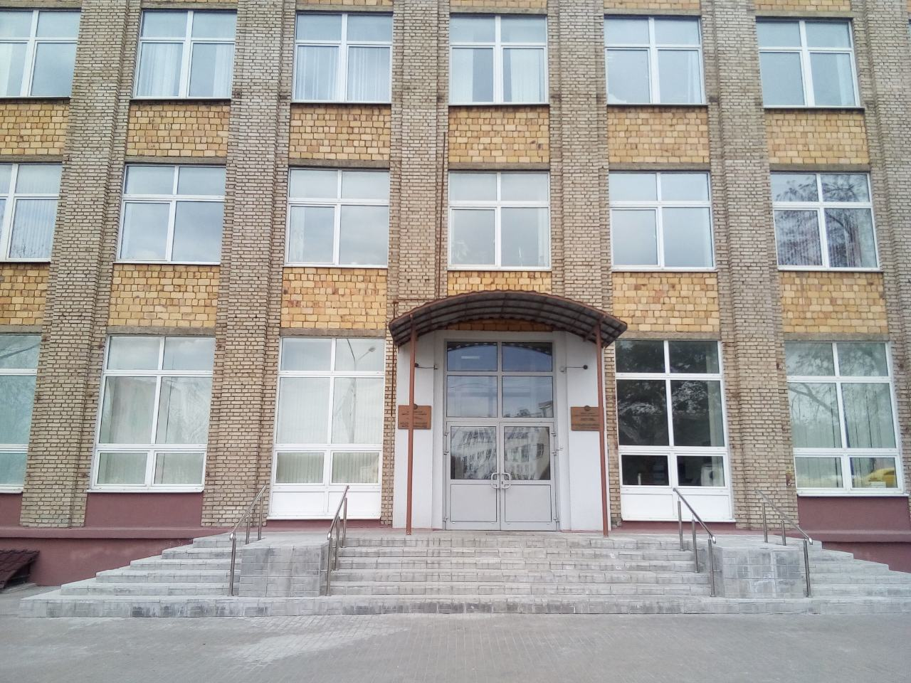 Entrance to the Joint Institute of Mechanical Engineering of the National Academy of Sciences of Belarus (12 Akademičnaja Street, Minsk; 20th of April, 2019)